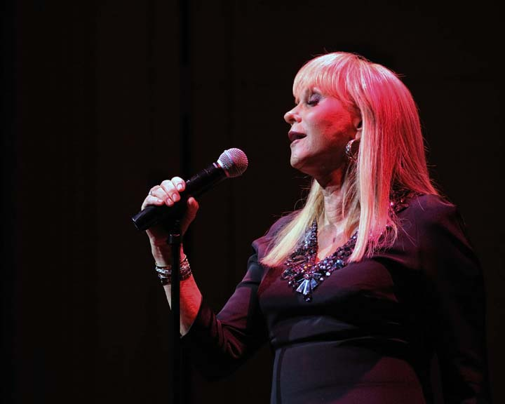 American singer-songwriter Jackie DeShannon performing at the ASCAP Foundation’s “We Write The Songs” concert at the Libary of Congress, Washington DC, May 10, 2011.